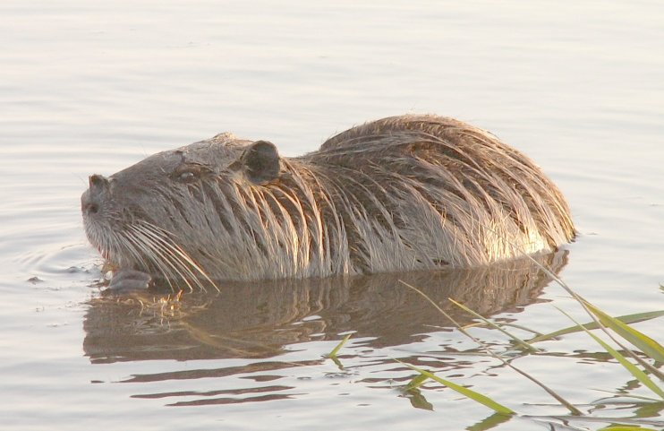 Nutria (or coypu) photographed in the Hula Valley in the northern Israel